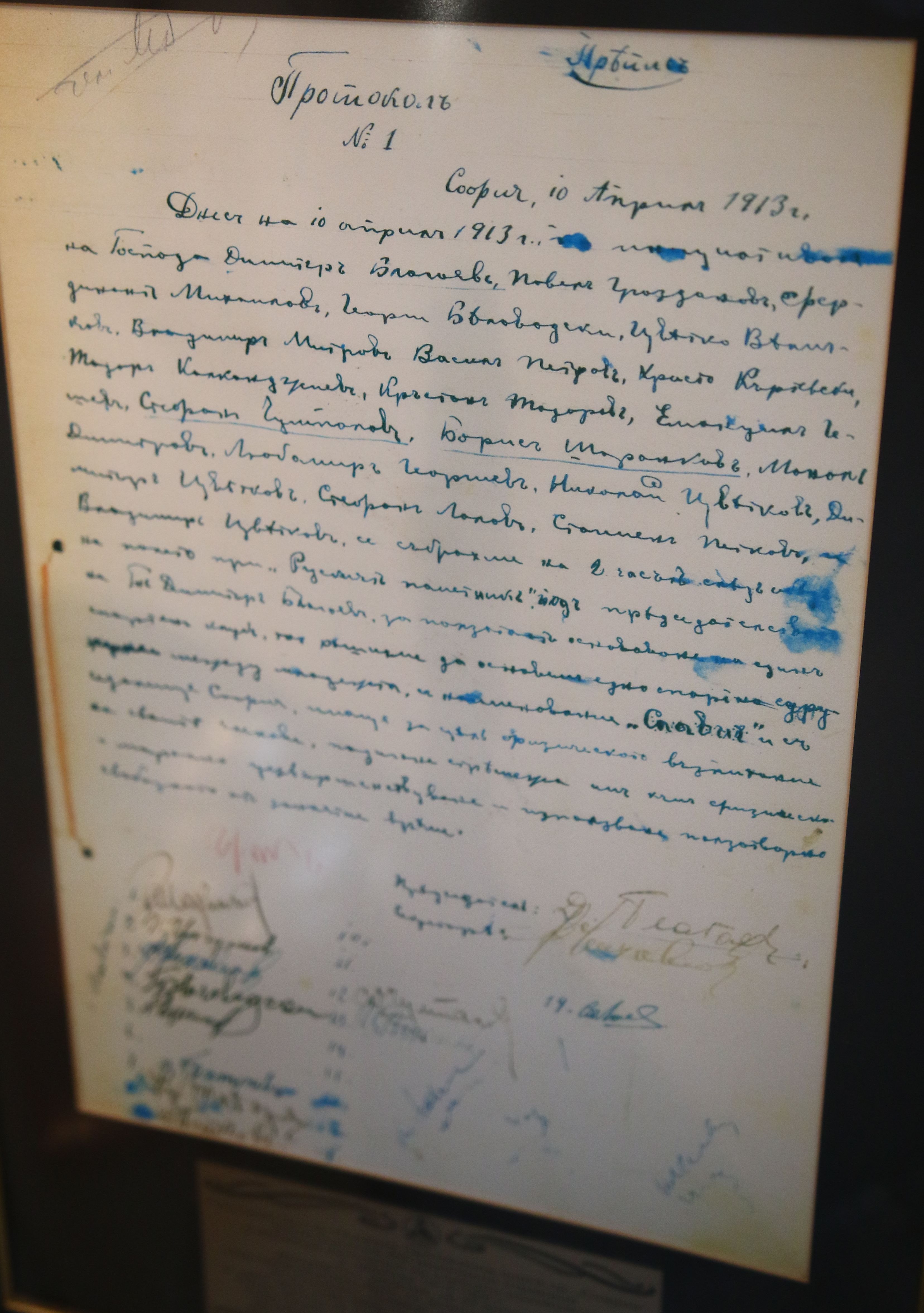 The original protocol of the meeting with which Slavia FC was founded, April 10, 1910. The manuscript is located in Slavia stadium, Sofia, Bulgaria.